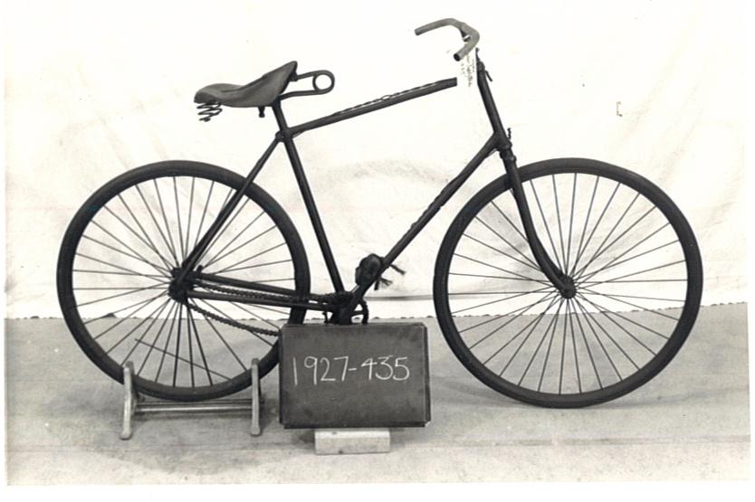 A c.1890 Humber Safety bicycle, now in the collections of the Science Museum (London) as copied from their ObjectWiki.